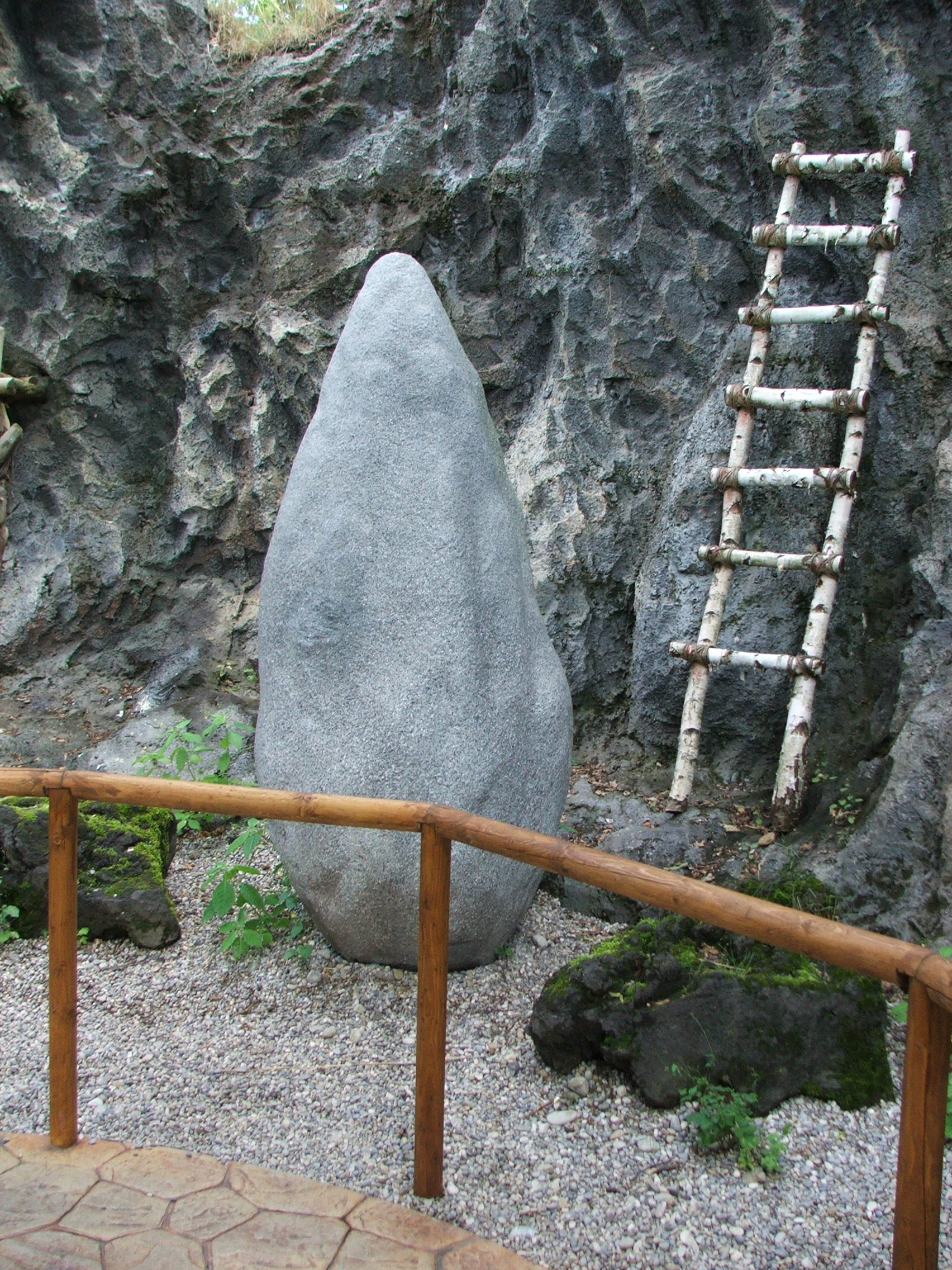 Bavaria Filmstadt, Munich, Bavaria, Germany.